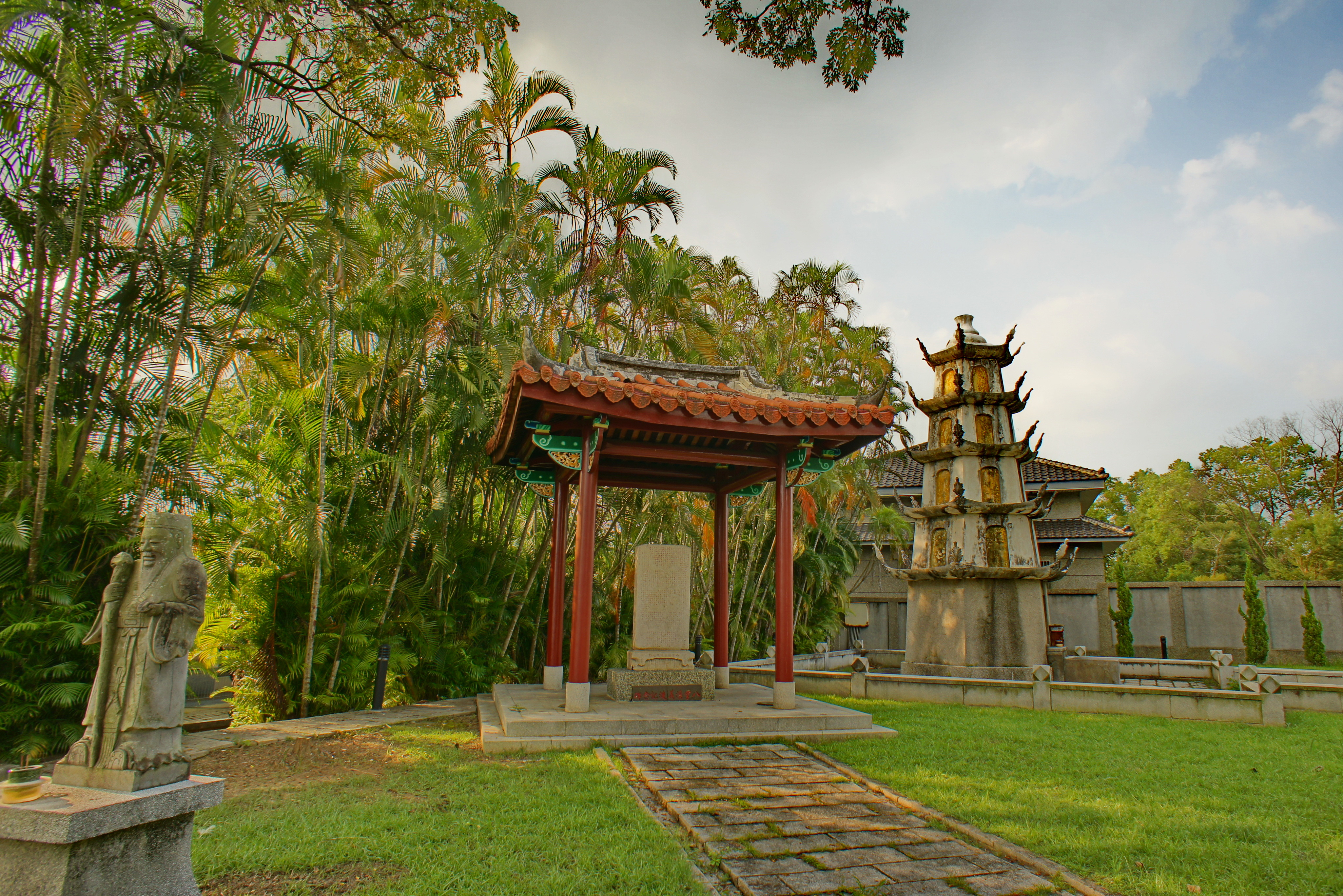 Bajiang River Charity Ferry memorial garden, Chiayi City, Taiwan.